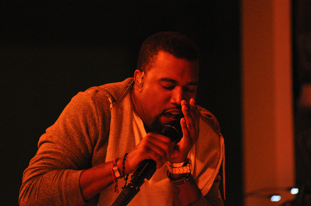 Kanye West performing at The Museum of Modern Art's annual Party